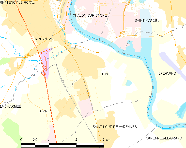 Map of French municipality